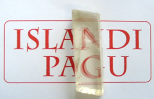 Birefringence in crysal of calcite